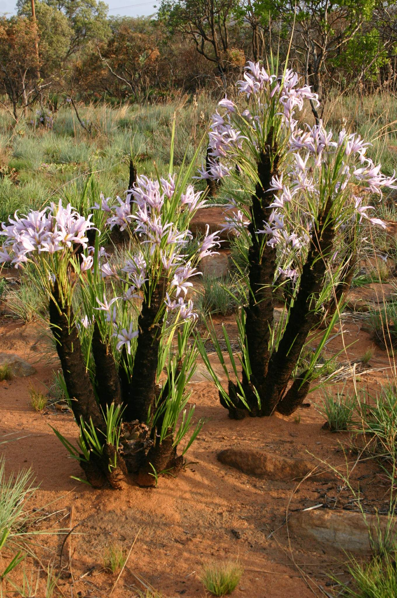 Xerophyta retinervis Baker, Magaliesberg